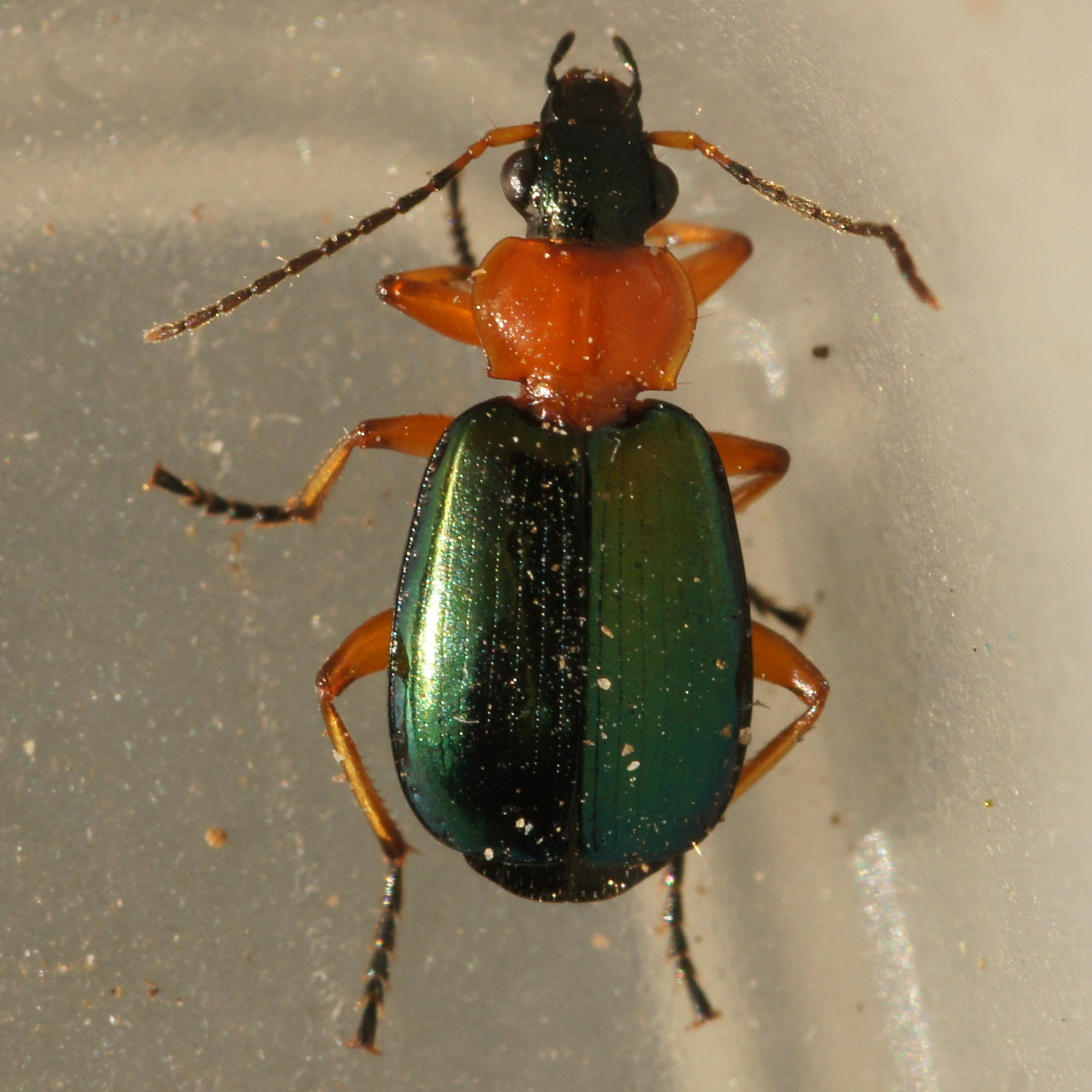 Lebia chlorocephala. Picture taken in Skåne, Sweden.